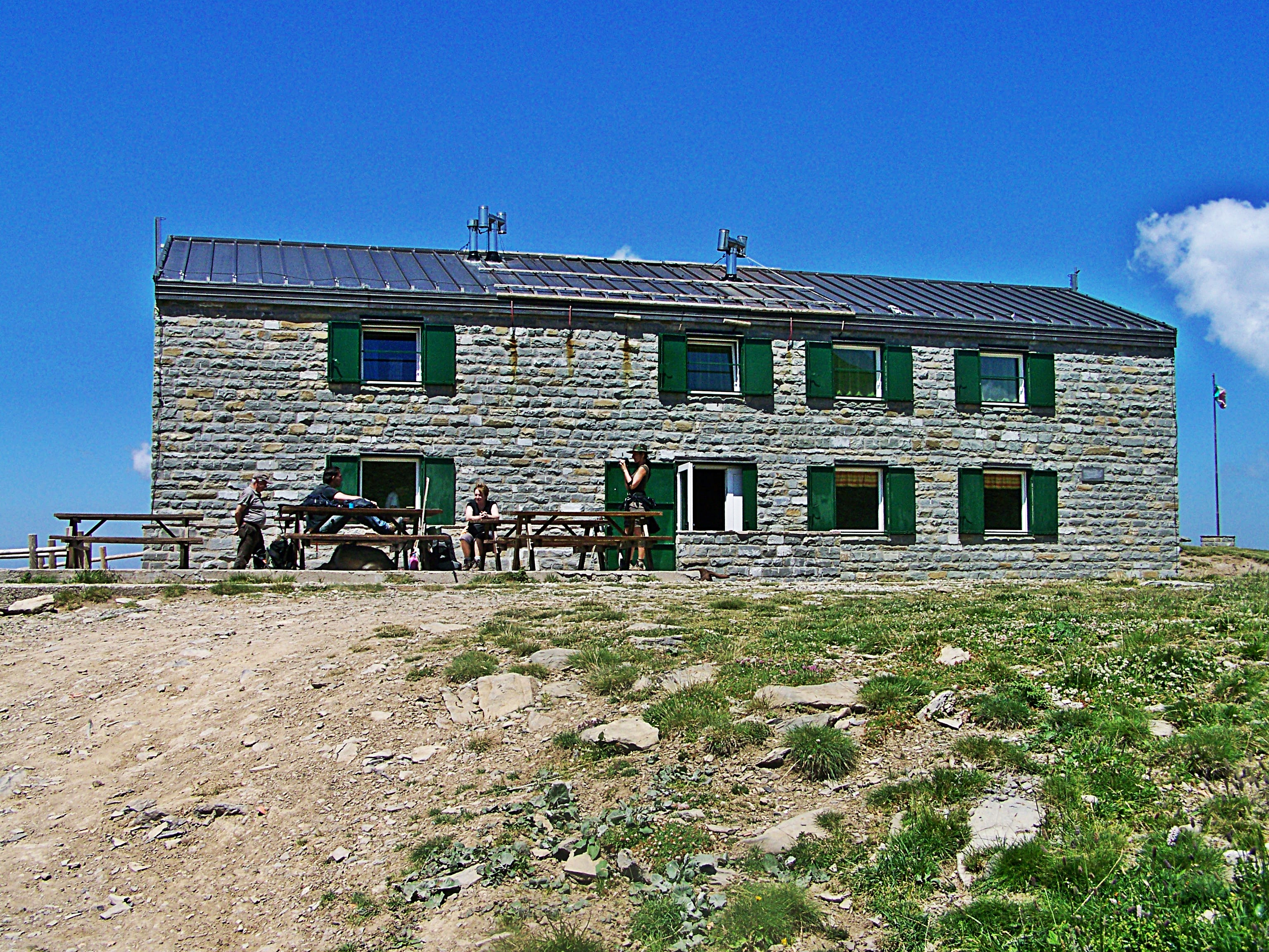 chalet